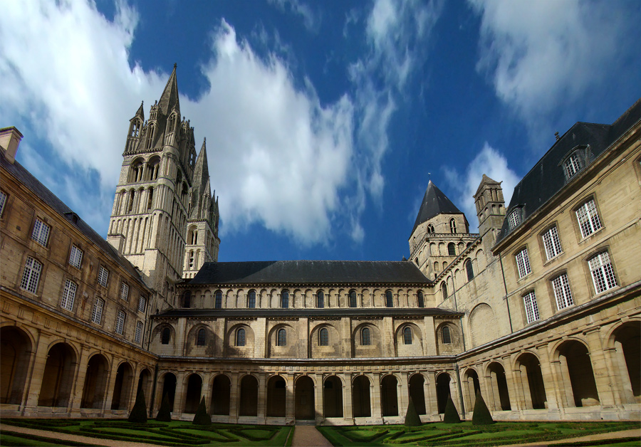 Abbaye-aux-Hommes, Caen, Calvados, Basse-Normandie, France. The cloister and the church of Saint-Étienne (St Stephen).